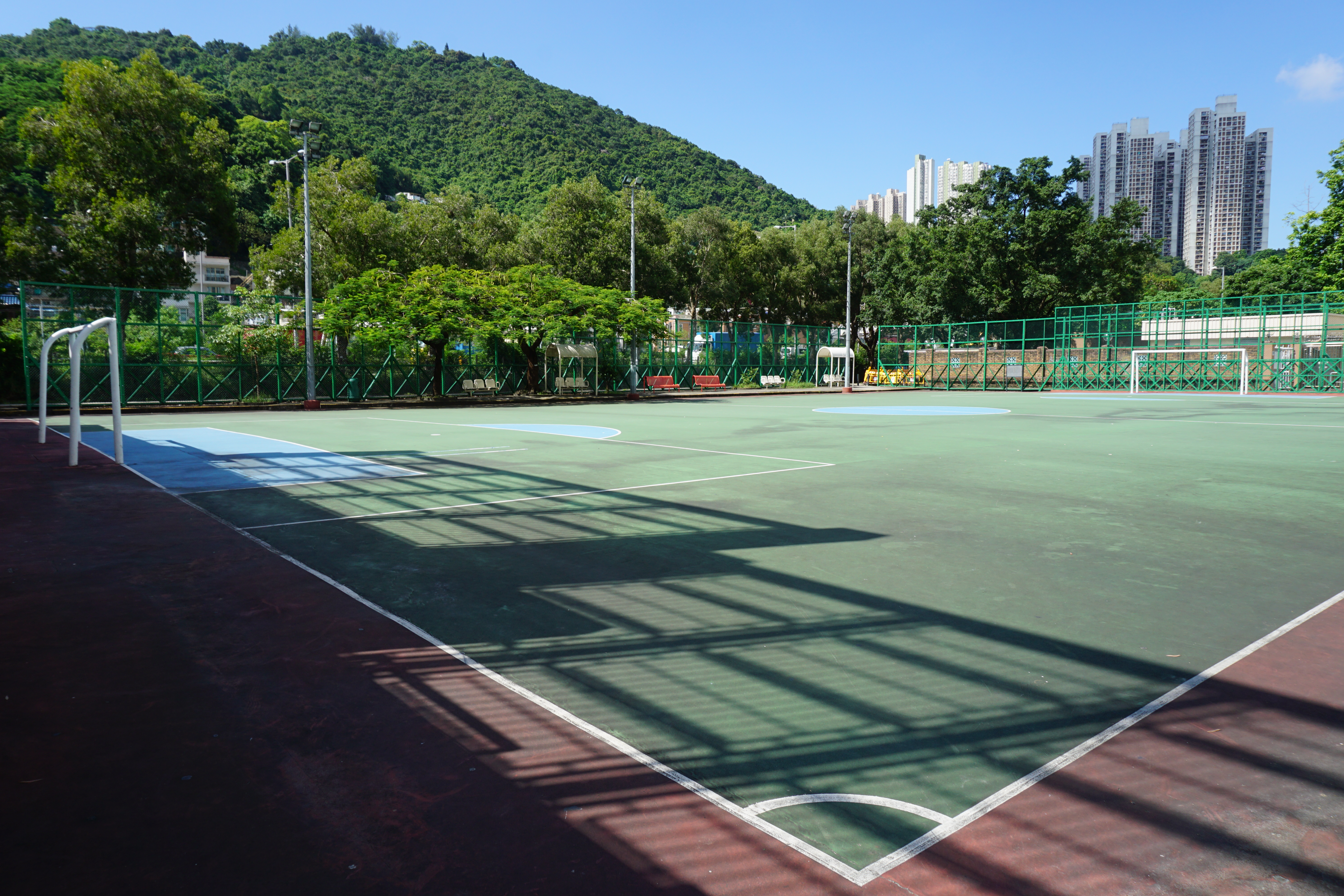 Lek Yuen Estate in Shatin, Hong Kong.